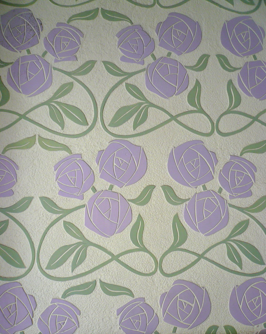 Casa Pere Carreras i Robert in Sitges, Catalonia